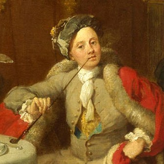 Detail of Hogarth's group portrait, Captain Lord George Graham, 1715-47, in his Cabin, showing the subject, Captain Lord George Graham